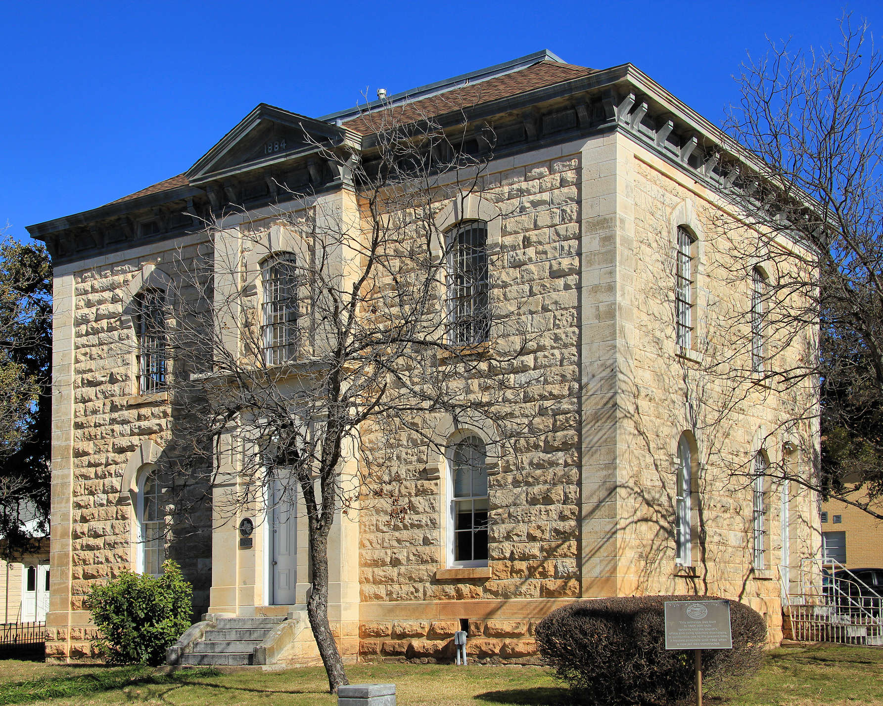 The former Burnet County Jail in Burnet, Texas, United States. The building was designated a Recorded Texas Historic Landmark in 1966.